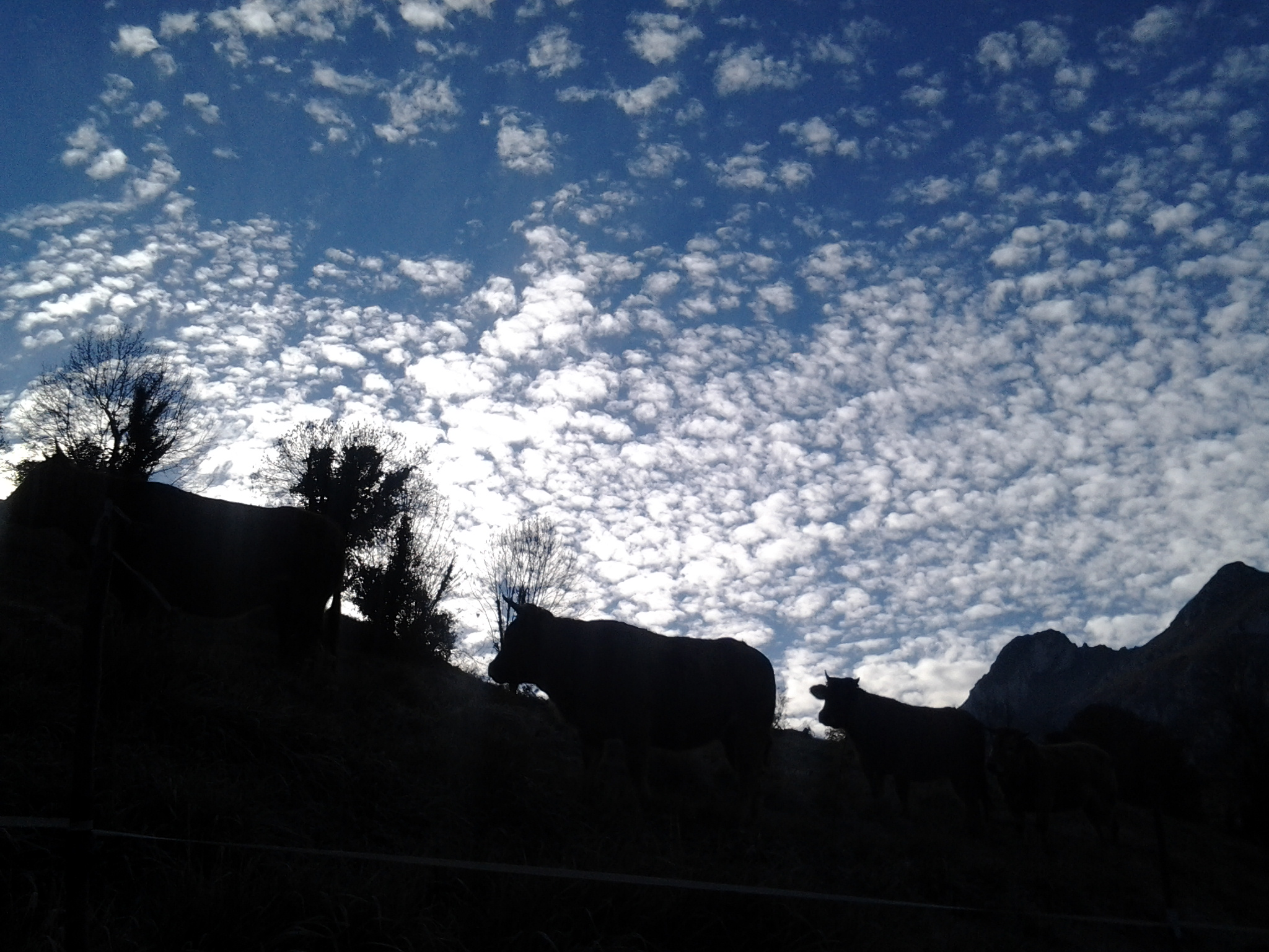 Cows in Senda del Oso, Asturias, Spain.